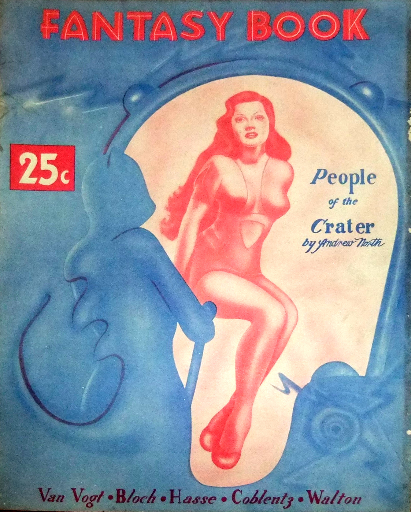 Cover, Fantasy Book, v1n1